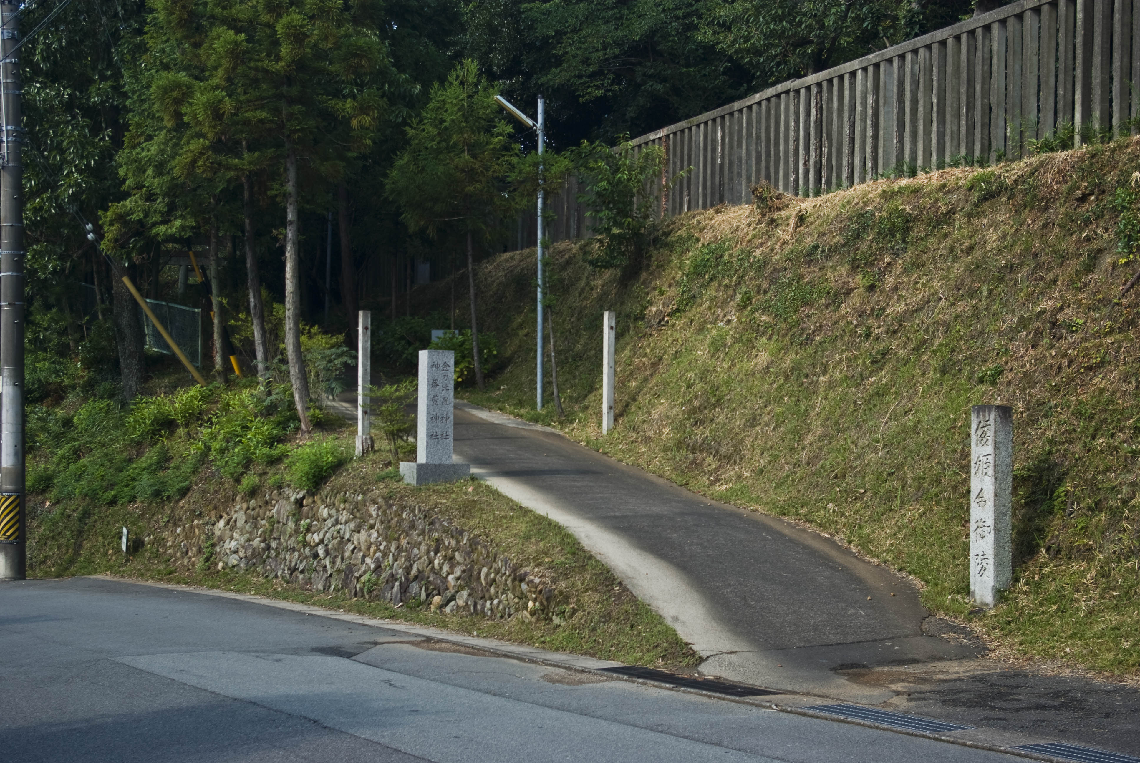 The place proposed for the legendary burial ground of Yamatohime-no-mikoto (倭姫命) designated by the Imperial Household Agency.